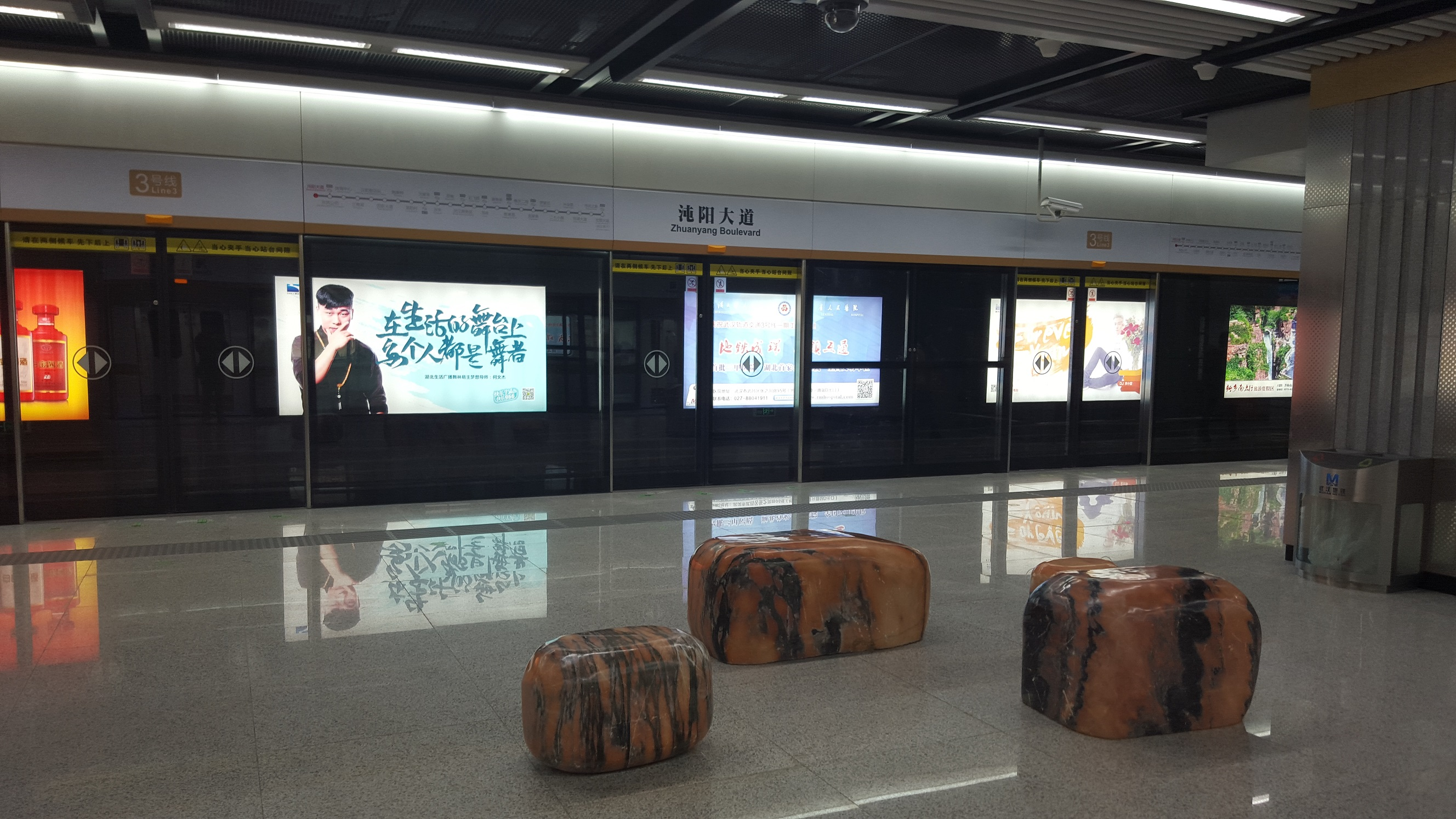 Platform of Zhuanyang Boulevard Station, Wuhan Metro